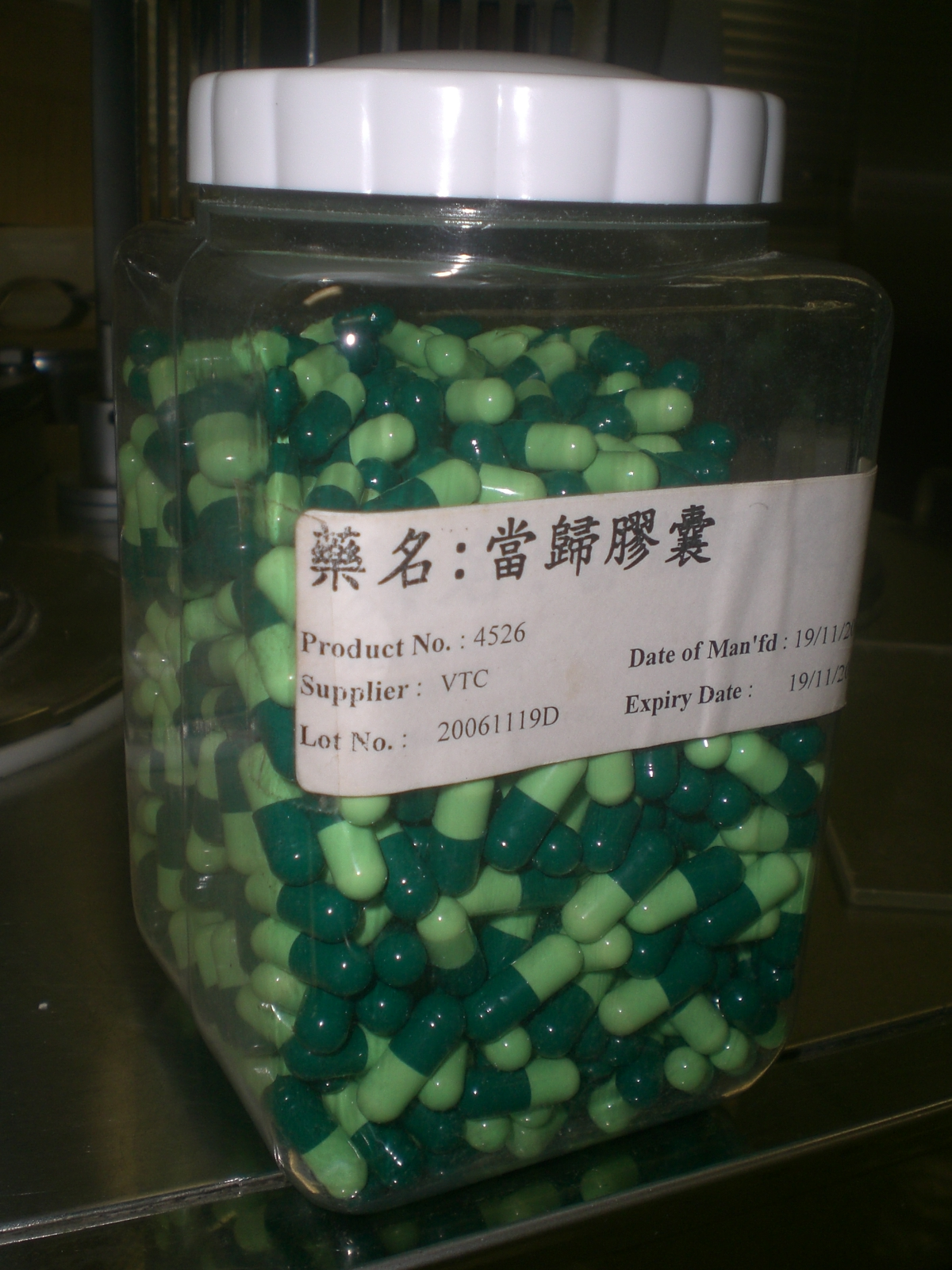 柴灣 香港專業教育學院柴灣分校 藥劑科學實驗室 展覽品 中藥 當歸 藥丸 置於透明 膠瓶 備設英文標籤 貼紙